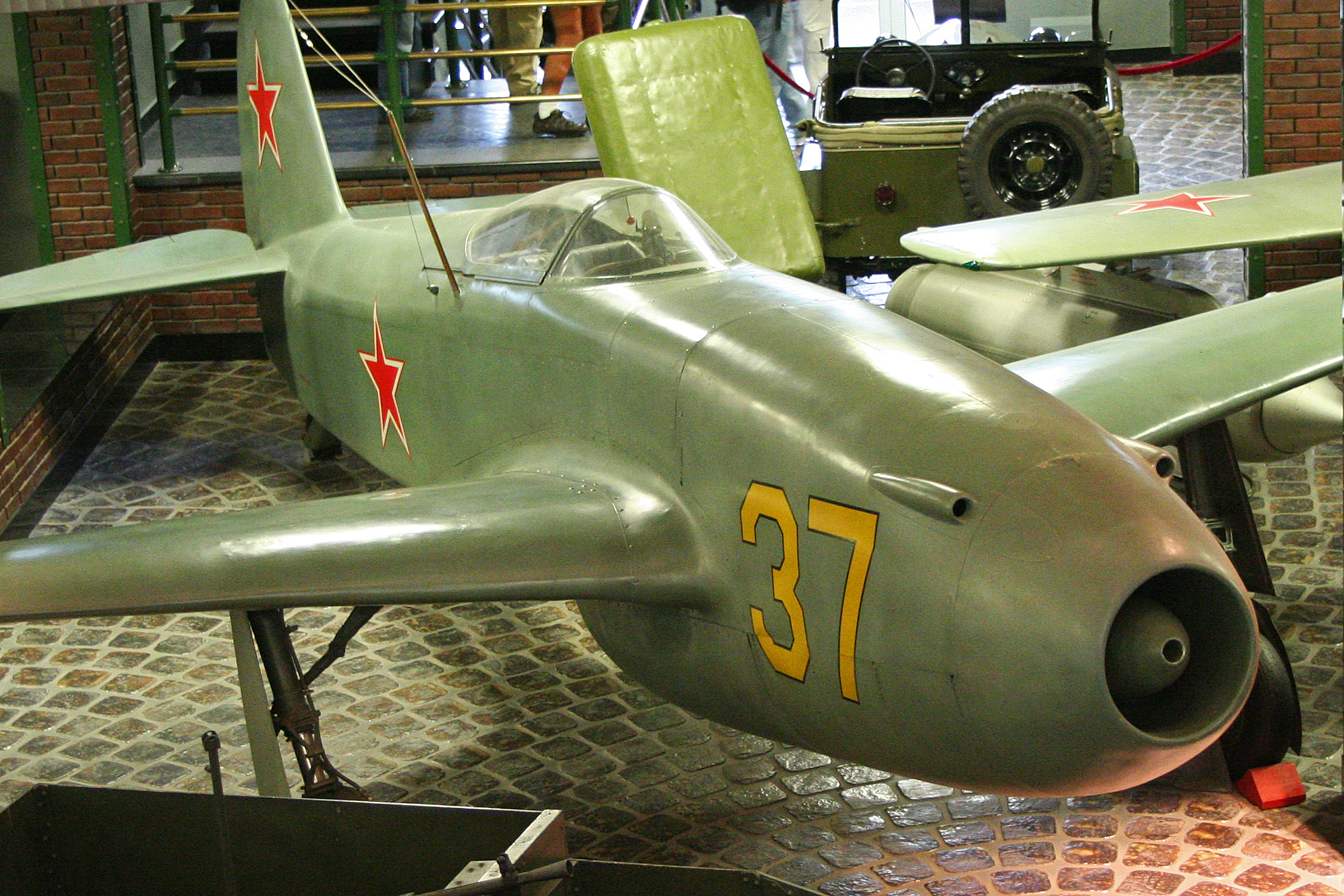 The Yak-15 was essentially a Yak-3 airframe fitted with a copy of the Junkers Jumo 004 jet engine. It was one of only two aircraft types to be successfully converted from piston to jet power, the other being the Saab J-21, The NATO codename for the type was 'Feather'. 280 were built and this is the only known survivor. It's msn has been suggested as being '31007', but this is unconfirmed. Displayed at the Vadim Zadorozhny Technical Museum, Arkhangelskoye, Moscow. Russia. 14-8-2012